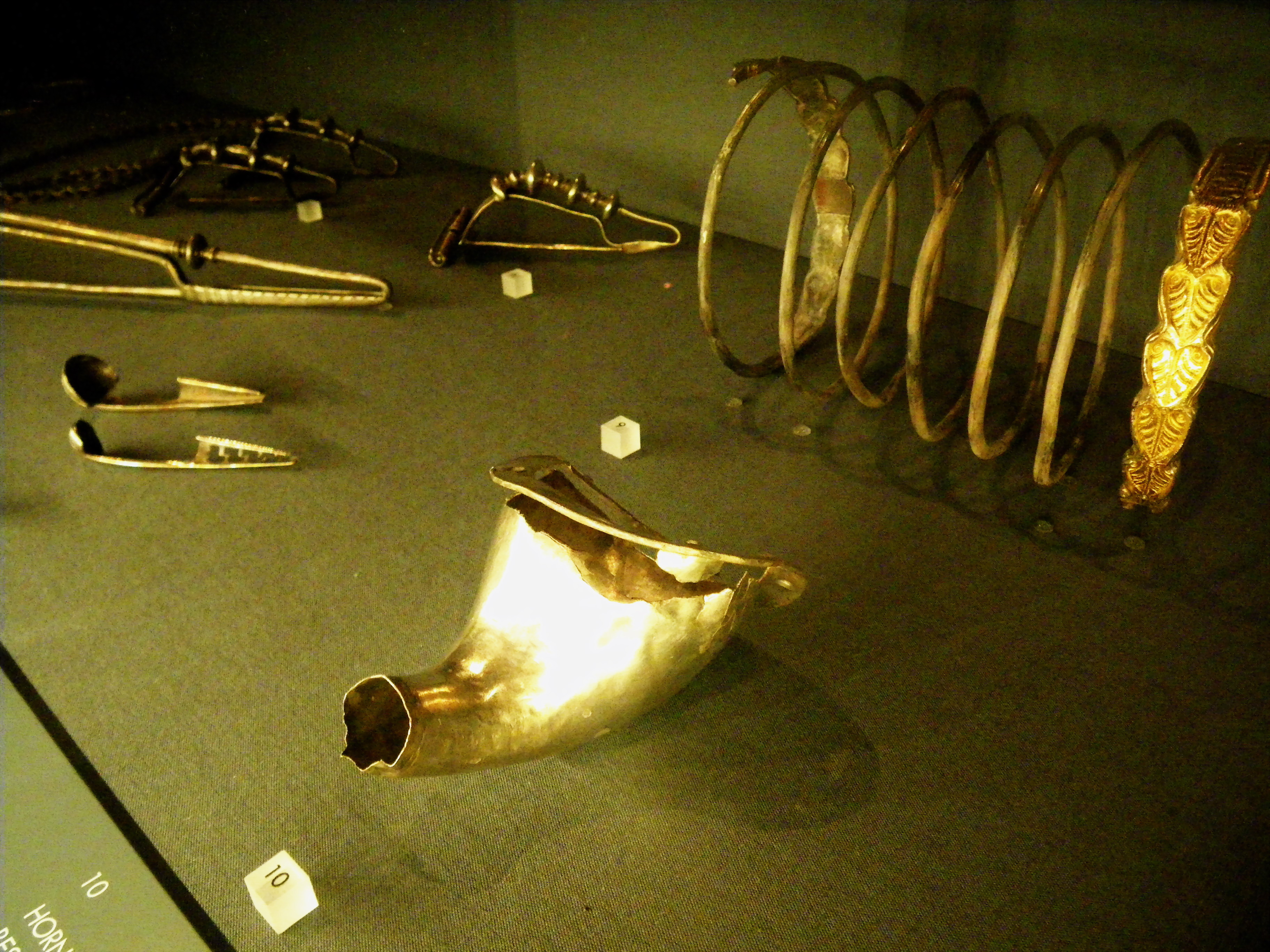 KunsthistorischesMuseum Dacian Gold